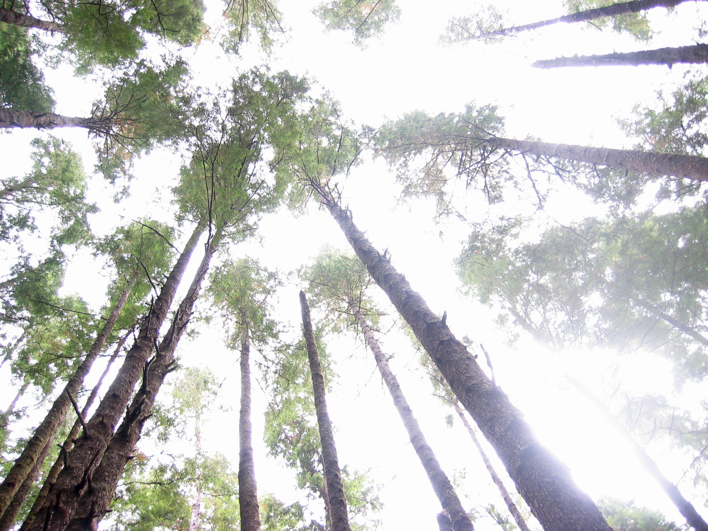 Forest ceiling